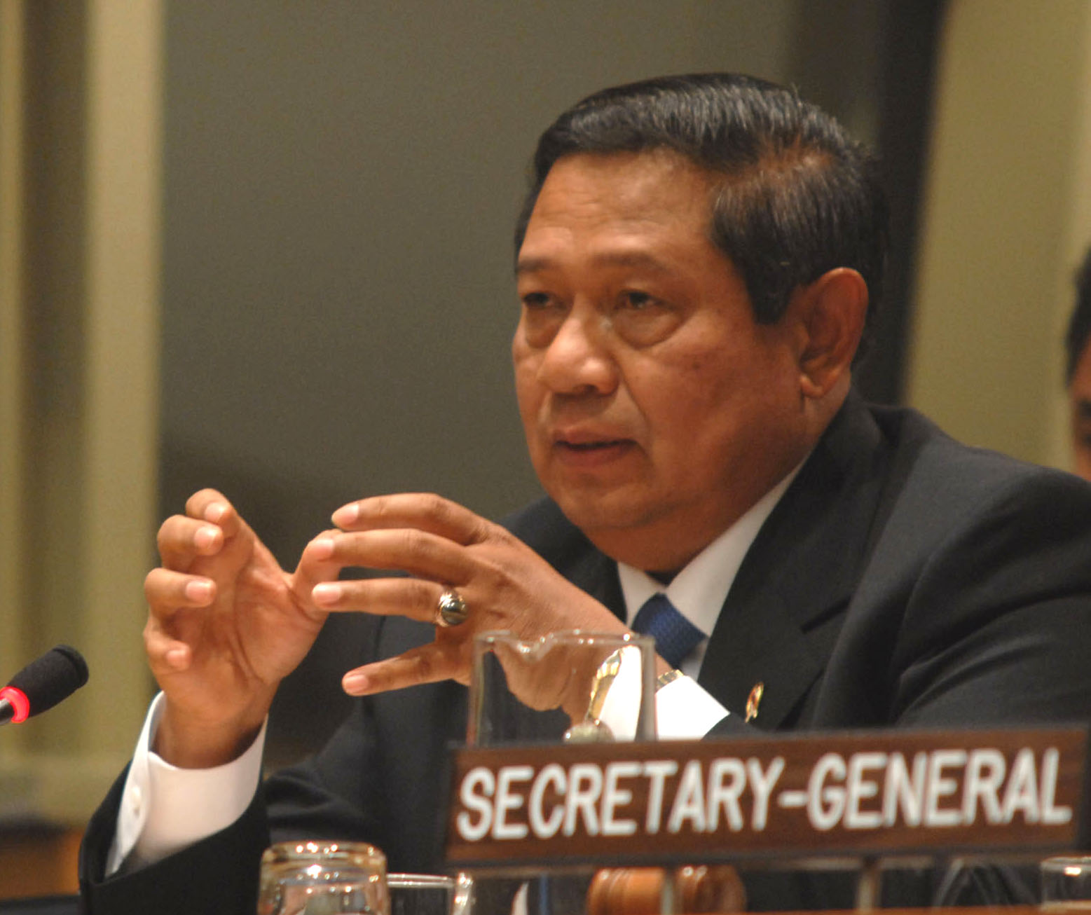 Susilo Bambang Yudhoyono, president of Indonesia.